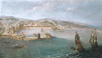 Messina, a panoramic view of the harbour and the city taken from the sea